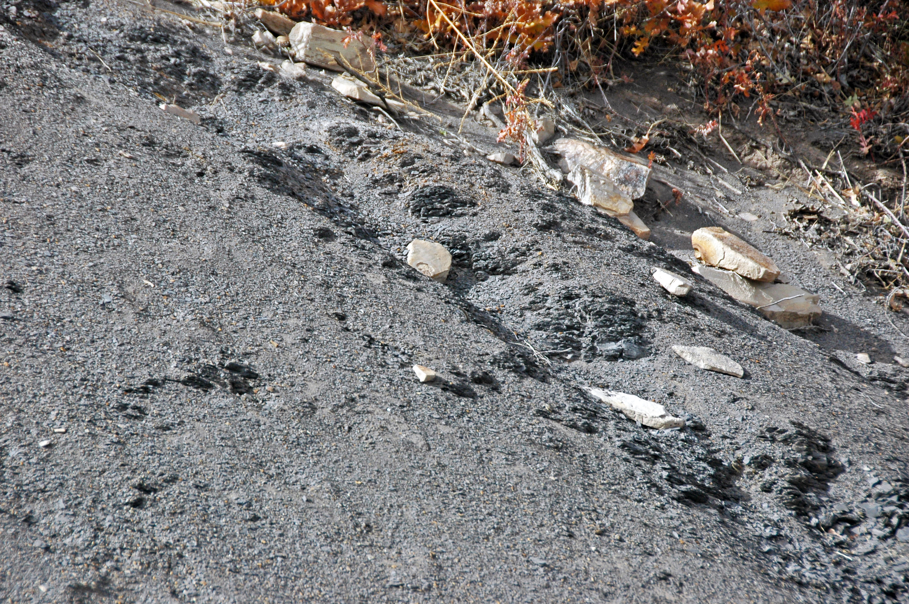 Shales in the Cretaceous of Colorado, USA. The Benton Shale is a widespread marine shale unit in the Cretaceous of western America. It was deposited in the ancient Western Interior Seaway at a time of globally-high sea level. Stratigraphy: Benton Shale, Upper Cretaceous Locality: slope exposure along the Lower Hogback Trail, Red Rock Canyon Open Space, western side of the town of Colorado Springs, western El Paso County, central Colorado, USA (~vicinity of 38° 50’ 54.92” North latitude, 104° 52’ 30.71” West longitude)